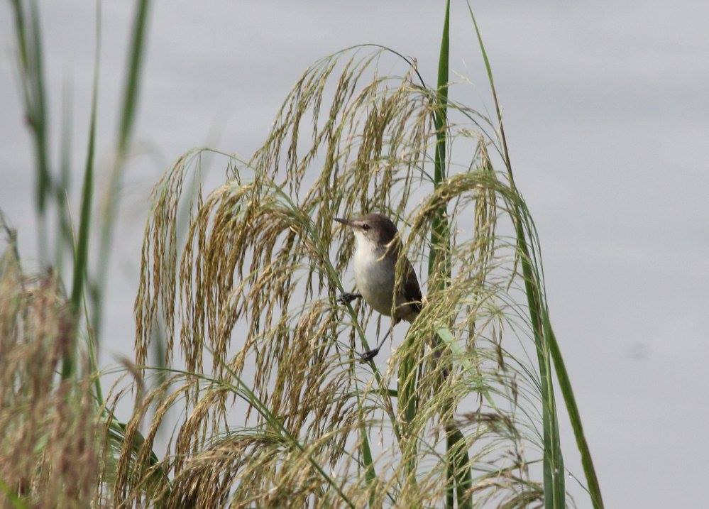 Race ansorgei of the Greater swamp warbler at Menongue, Angola